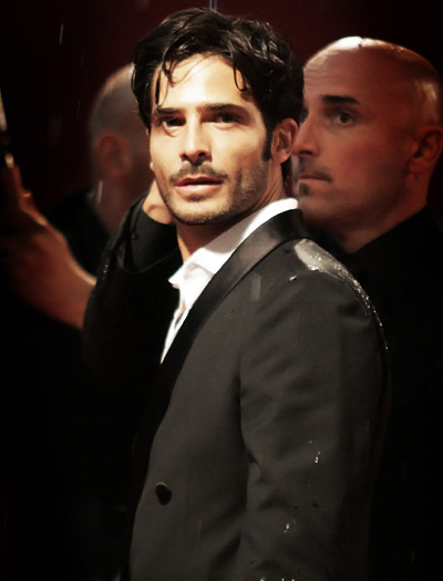 Actor Marco Bocci - Red Carper